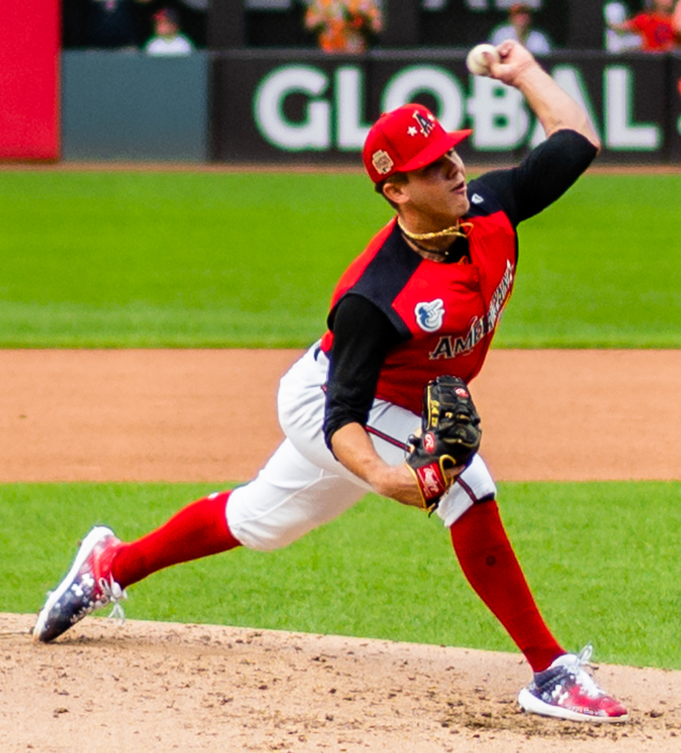 DL Hall delivers a pitch in the 2019 All-Star Futures Game at Progressive Field in Cleveland